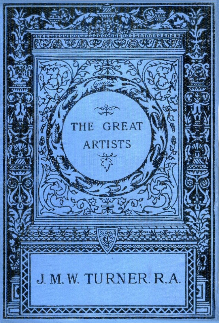 Cover of Turner in the Great Artists series